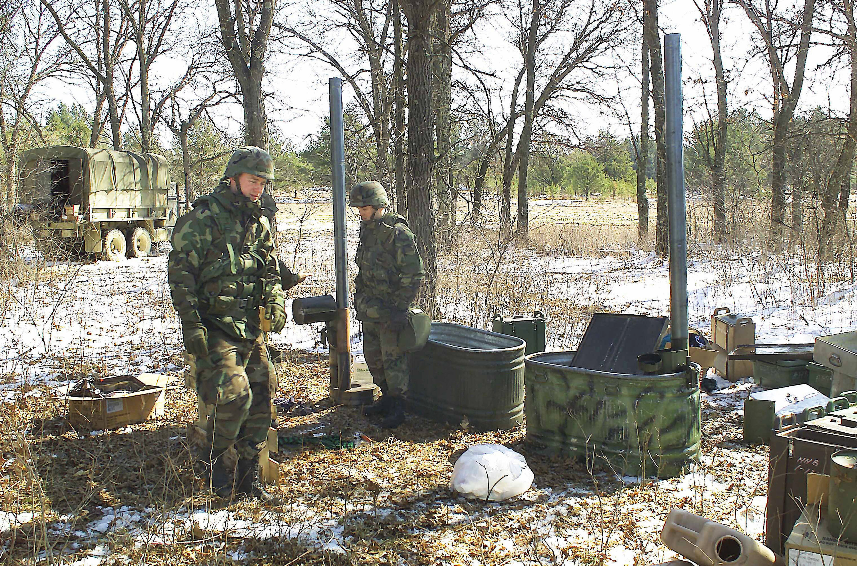 Soldiers on KP duty in the staging area for a field mess on Fort McCoy, Wisconsin. As part of the training, Private (PVT) Mike Hayter, USA, and PVT Taylor Schliewe, USA, with the 1st Battalion, 126th Field Artillery (FA) from Kenosha, Wisconsin, are on KP duty in the staging area for a field mess set up at the North Training area on Fort McCoy.